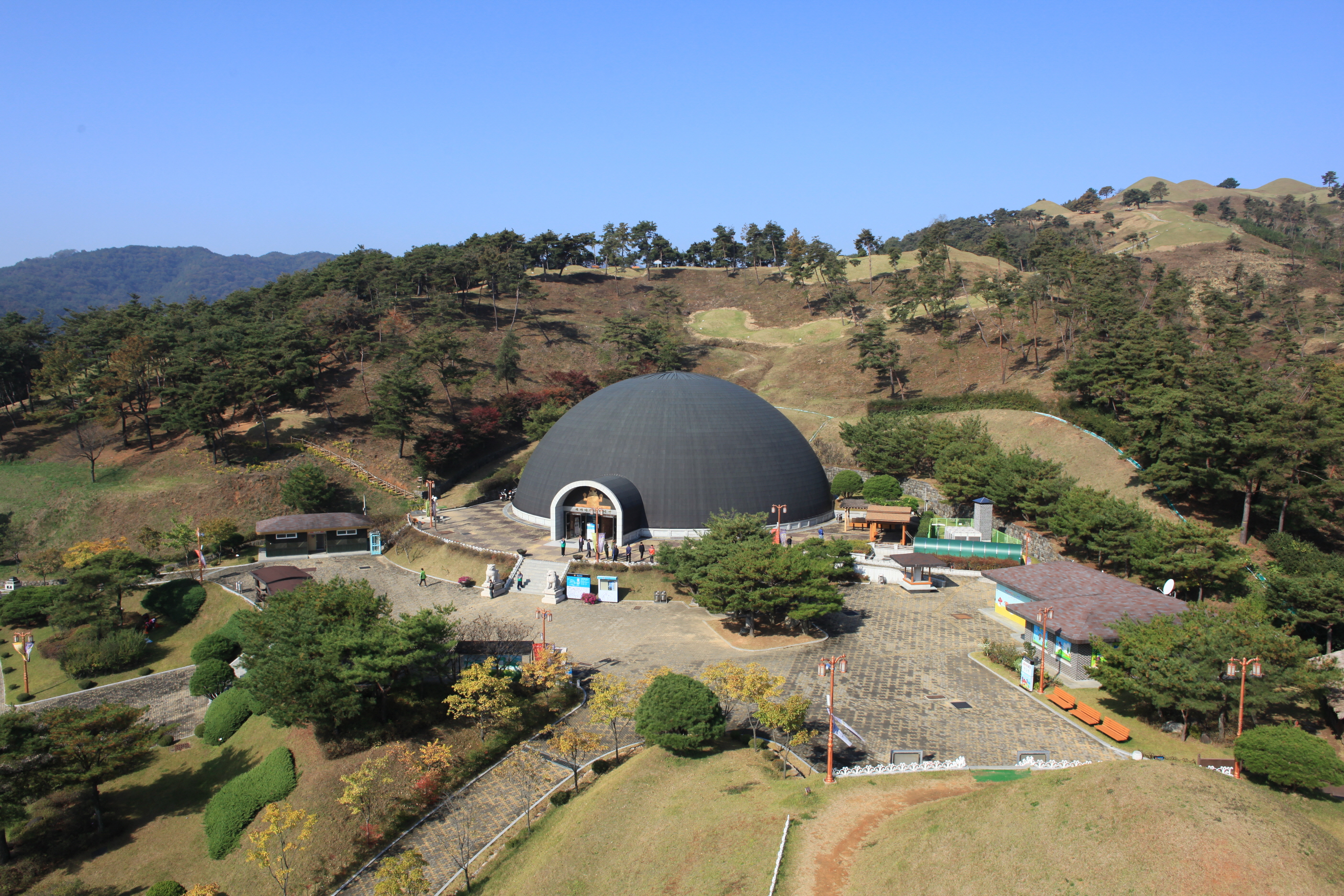 Gaya royal tomb exhibition place. (Goryeong, Gyeongsangbuk-do, South Korea)